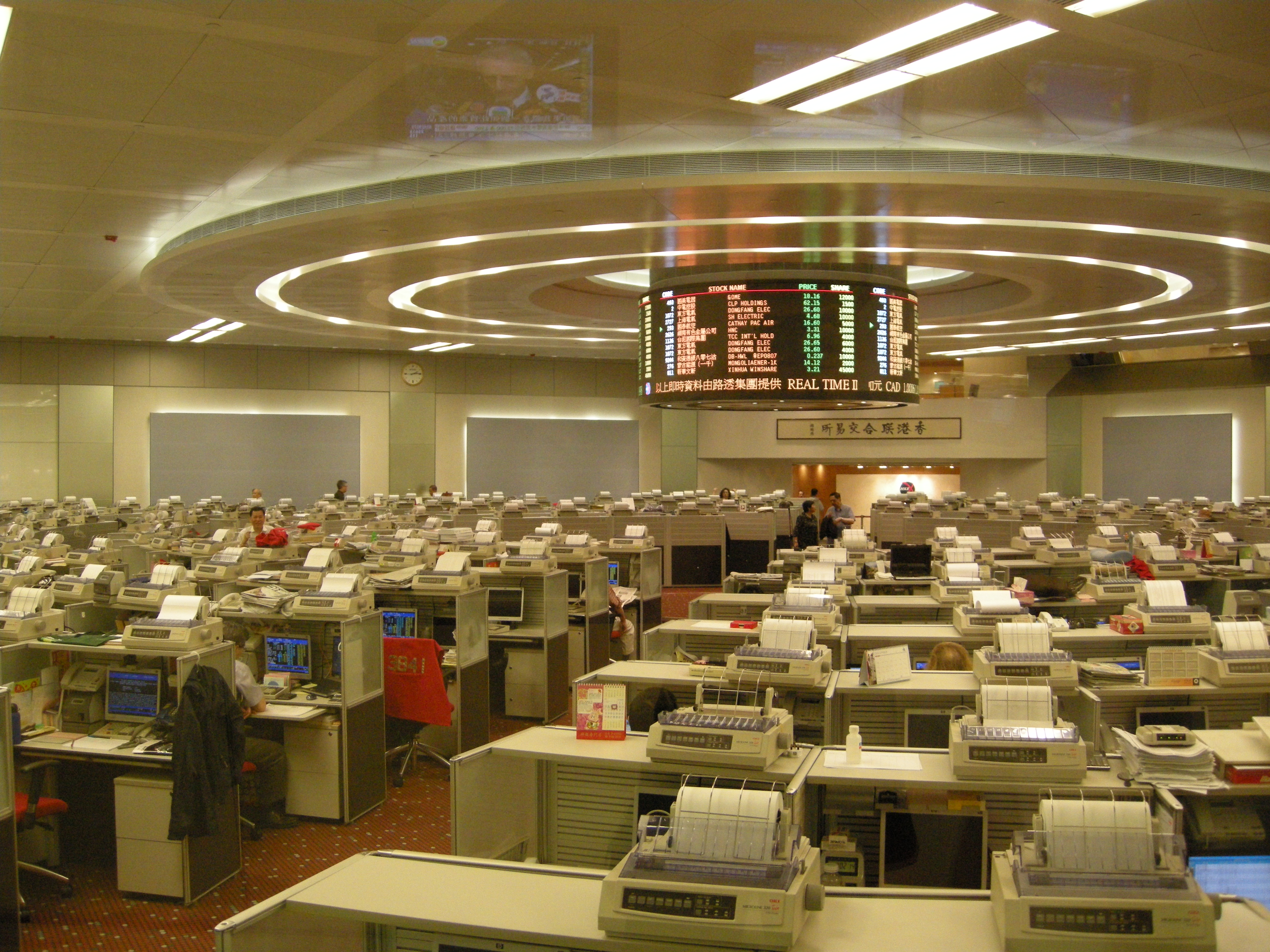 Hong Kong Exchanges and Clearing Trading Hall